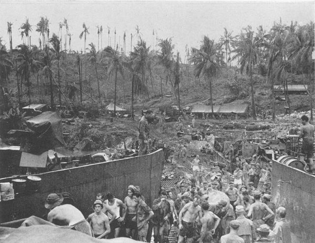 Disembarked troops in Talasea